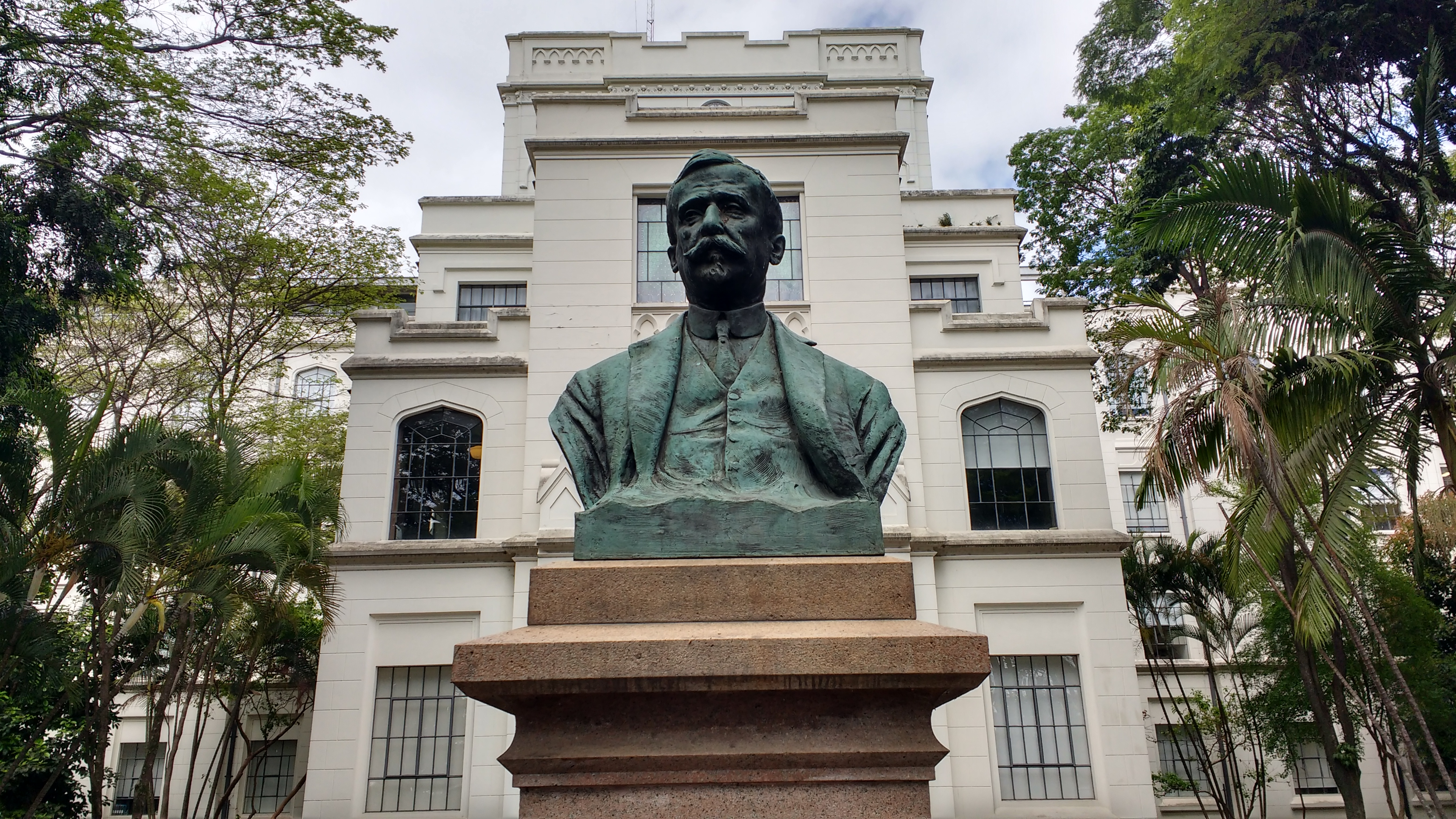 Statue of the college's founder, Doctor Arnaldo Vieira de Carvalho.